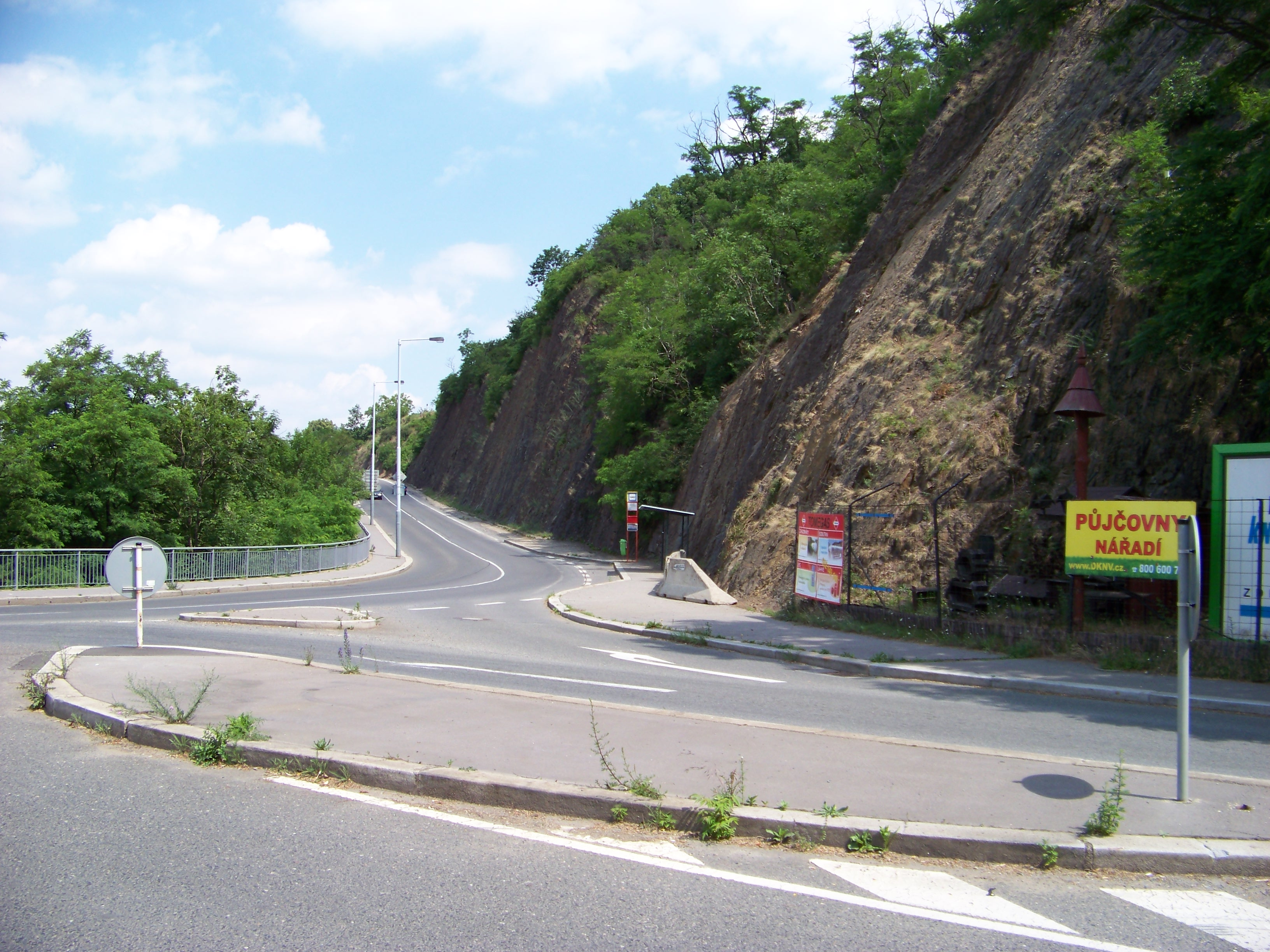 Prague-Zbraslav-Závist, the Czech Republic. Komořanská street, U Závisti natural monument.